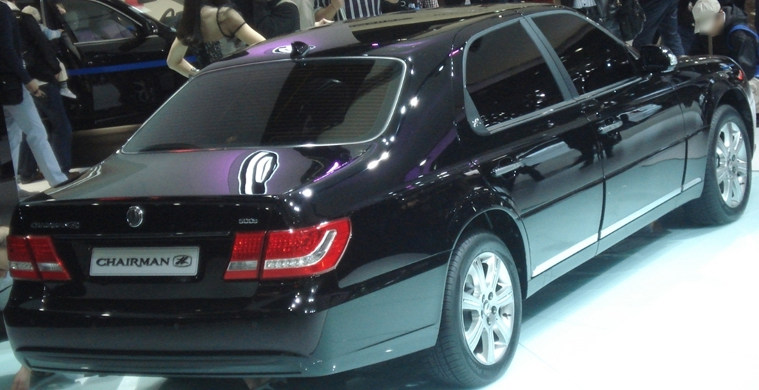 SsangYong Chairman H New Classic